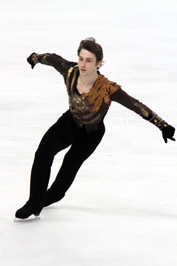 Brian Joubert at the 2010 World Championships.